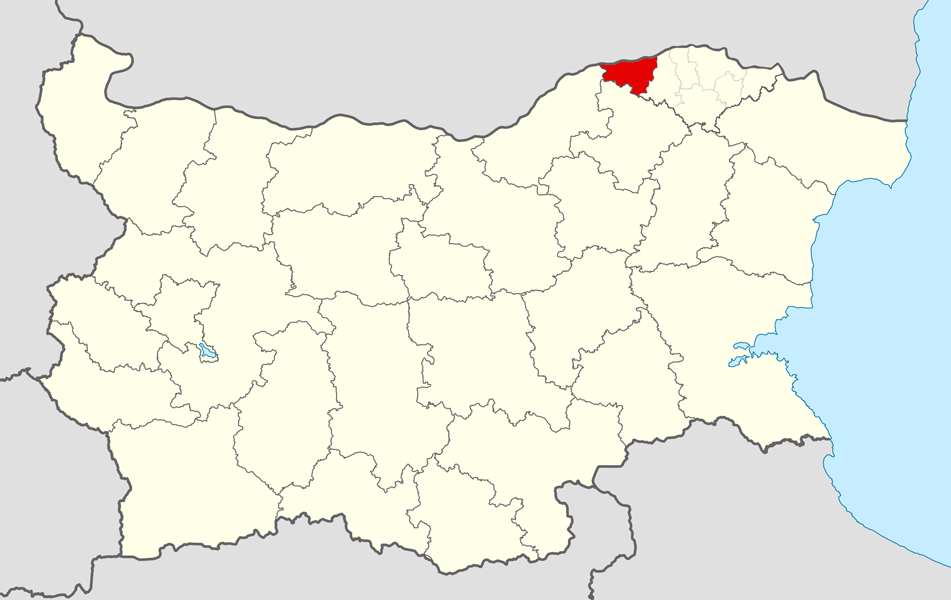 Location map of Tutrakan Municipality within Bulgaria and Silistra Province. Equirectangular projection, N/S stretching 130 %. Geographic limits of the map: N: 44.4° N S: 41.1° N W: 22.1° E E: 28.9° E